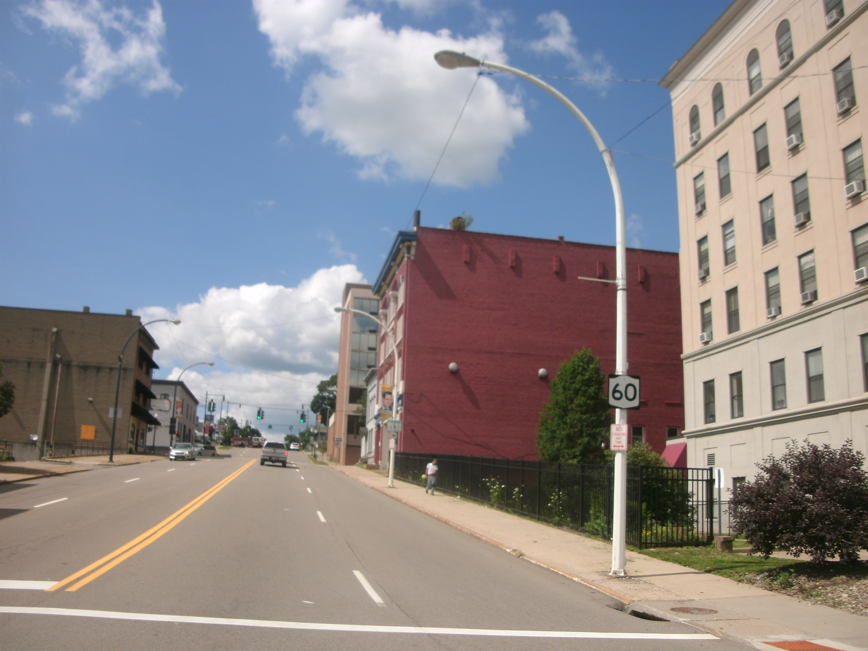 New York State Route 60 northbound through the city of Jamestown, New York.